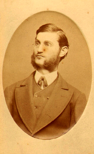 Photograph of Jovan Grčić Milenko (1846-1875), Serbian writer and professor (Berlin, 1871) Srpski (latinica): Fotografija Jovana Grčića Milenka (1846-1875), srpskog književnika i profesora (Berlin, 1871)